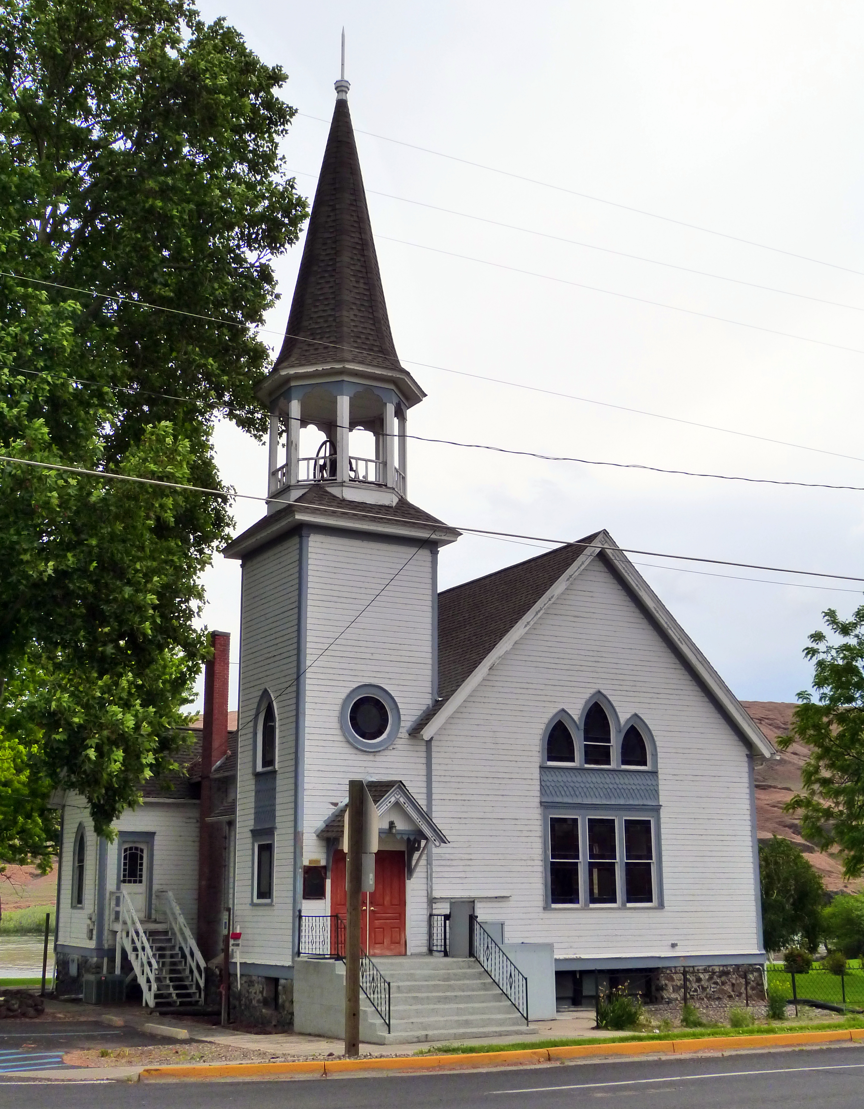 The historic Full Gospel Church (built 1899), located on 1st Street in Asotin, Washington, United States, is listed on the US National Register of Historic Places.